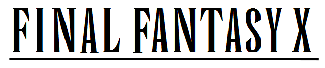 Final Fantasy wordmark created using Runic MT Condensed font. Trademarked by Square Enix.